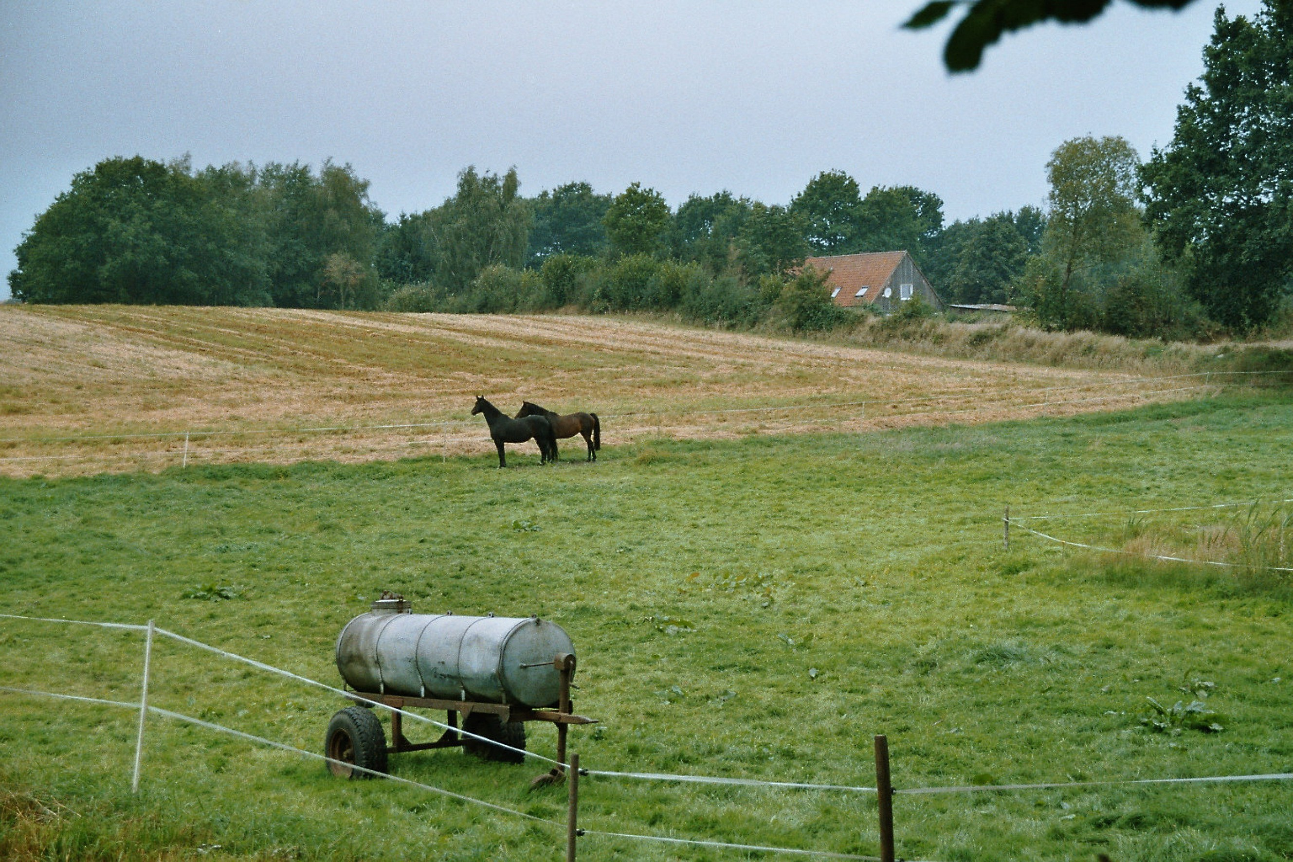 Paddock near the village Bebensee